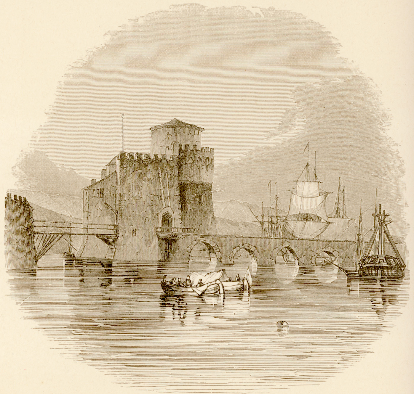 Christopher Wordsworth. Greece Pictorial, Descriptive, & Historical, and a History of the Characteristics of Greek Art, London, John Murray, 1882.